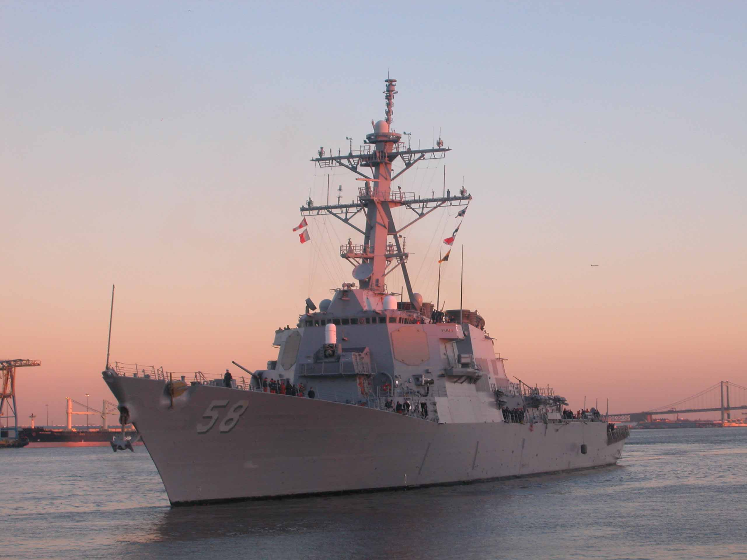 Philadelphia, Pa. (Mar. 18, 2003) -- The guided missile destroyer USS Laboon (DDG 58) transits up the Delaware River for a four day St. Patrick’s Day port visit. Laboon Sailors enjoyed a Philadelphia 76’s basketball game, and visited the Liberty Bell, while hosting 60 delayed entry personnel from Navy Recruiting District (NRD) Philadelphia. The future Sailors were treated to a tour of the ship and Navy chow on the ship’s mess decks. U.S. Navy photo by Chief Journalist Dave Fitz. (RELEASED)